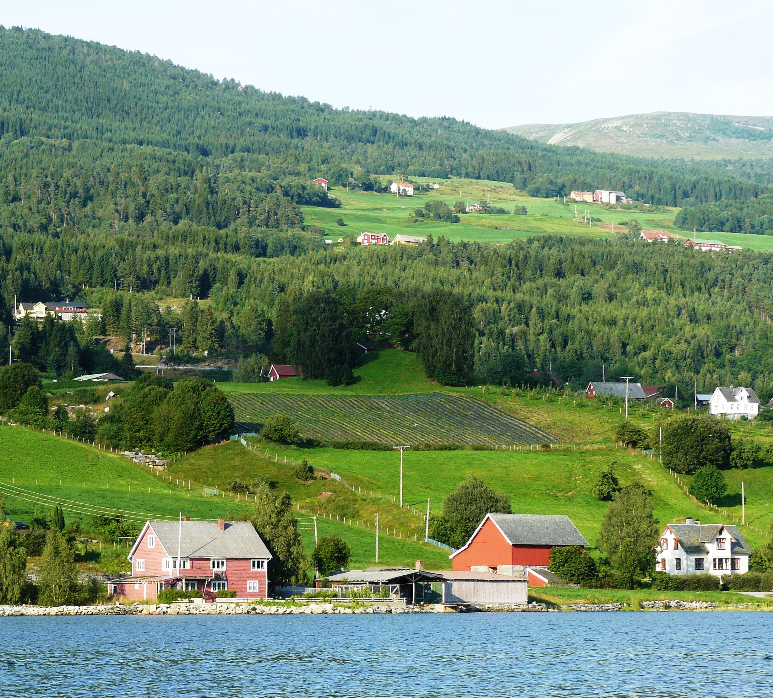 Karnils tumulus depicted from Gloppefjorden, Norway.jpg